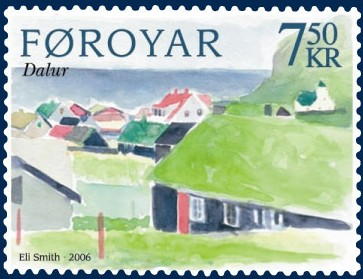 Stamp FO 569 of the Faroe Islands: The Isle of Sandoy: Dalur